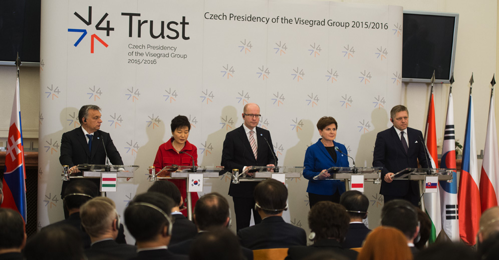 V4 Summit + South Korea in Prague on 3 December 2015